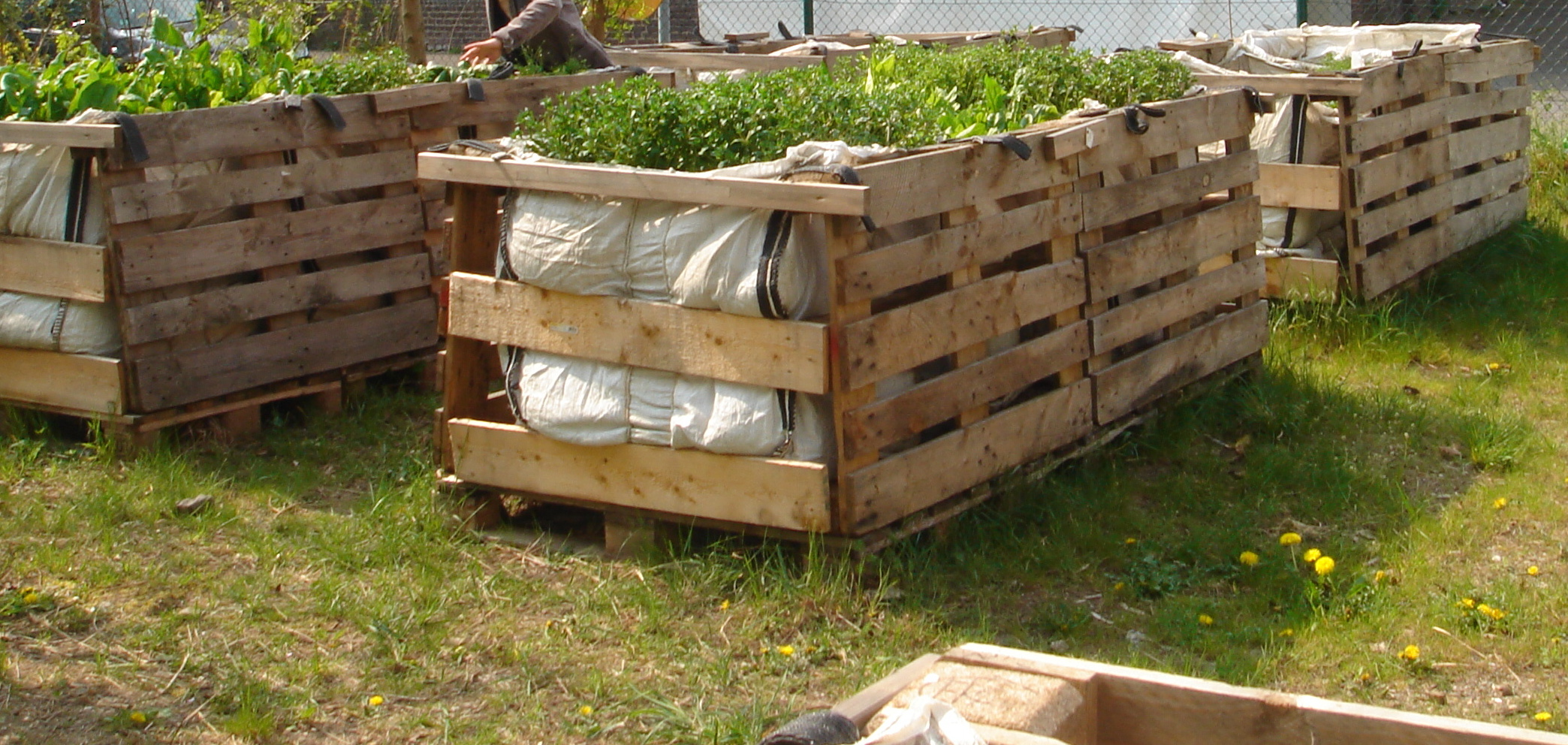 Mobility Community gardening Example with Bigbag